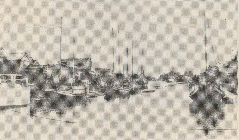 This is a scene of Ominato, Ise, Mie, Japan in 1935.